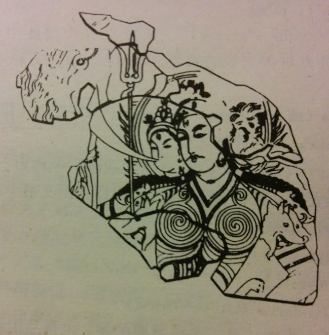 God in Sogdians mural, 8th century